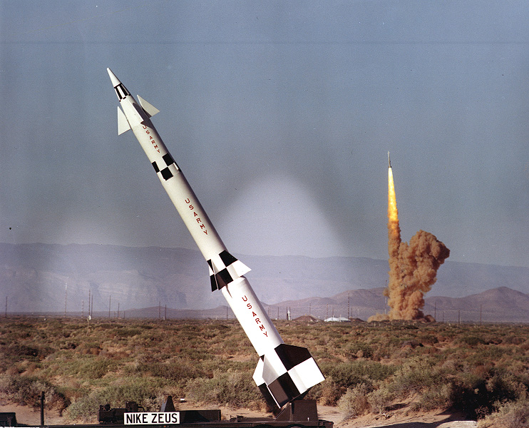 This image shows a Nike Zeus B missile in the foreground on static display at White Sands, while another Zeus B is test launched in the background.